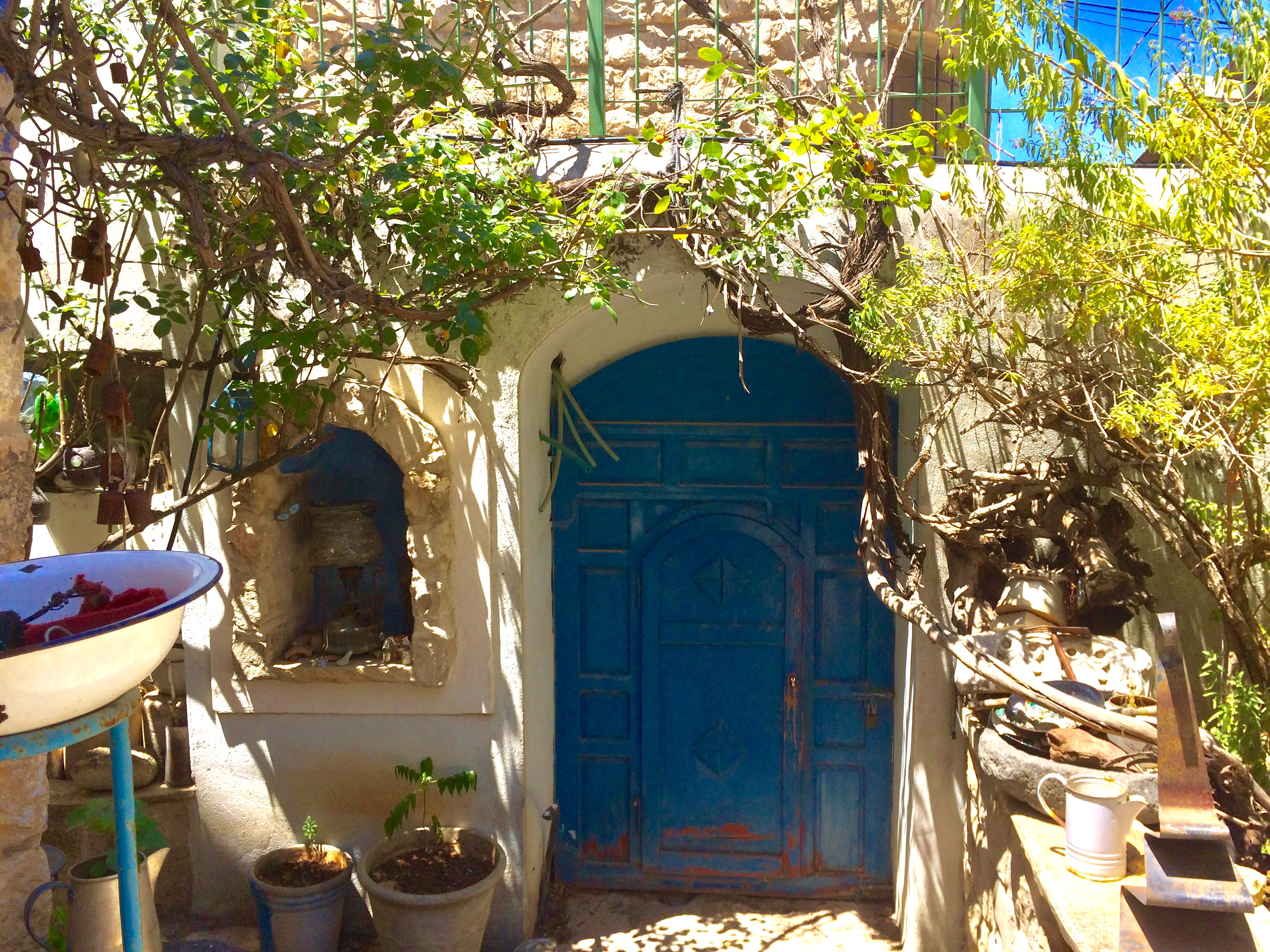 Blue door in Beit Castel gallery, Safed, Israel, July 2018